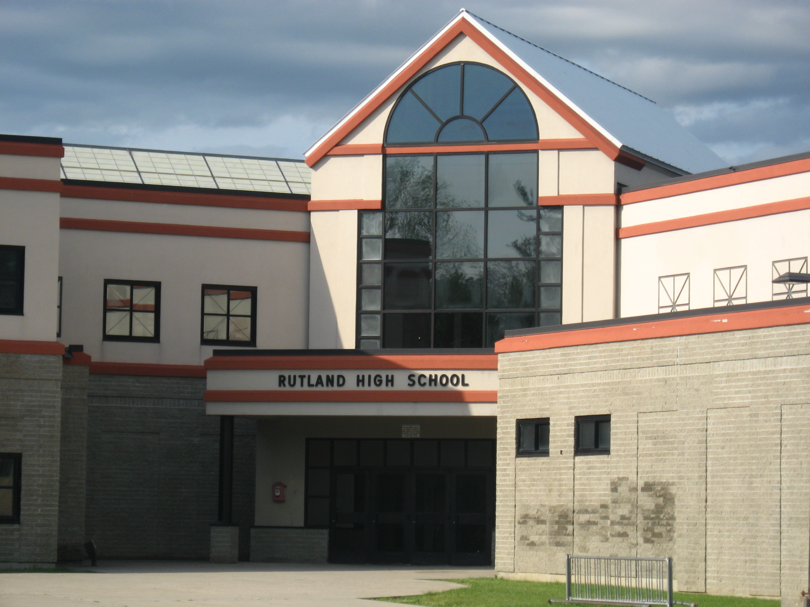 Rutland High School up-close in Rutland, Vermont.